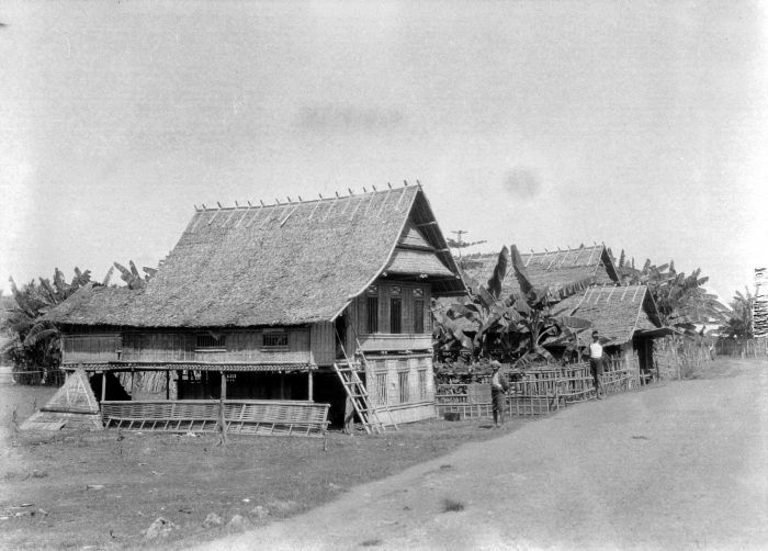 House